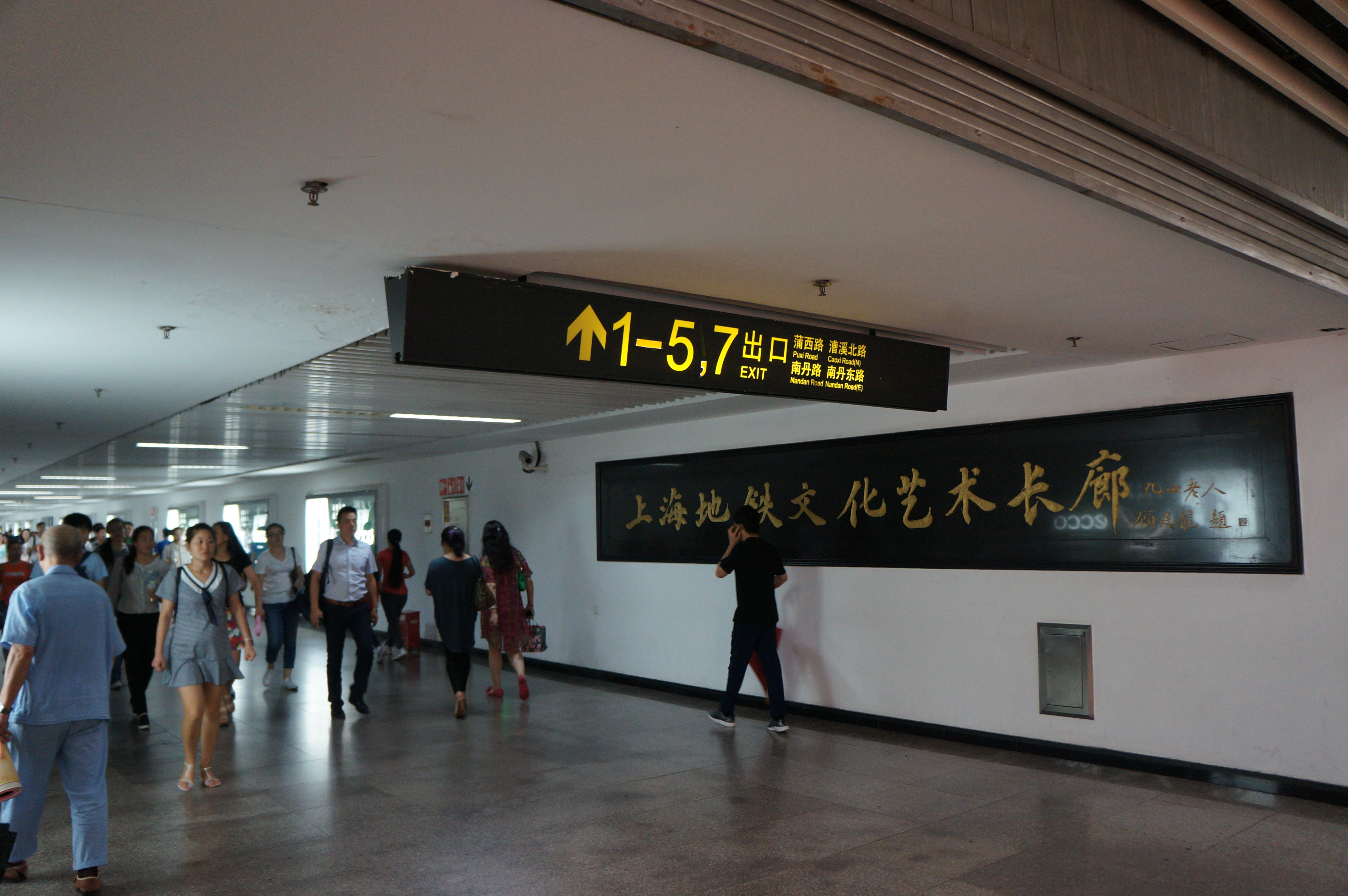 201609 Art Gallery of Shanghai Metro at Xujiahui Station